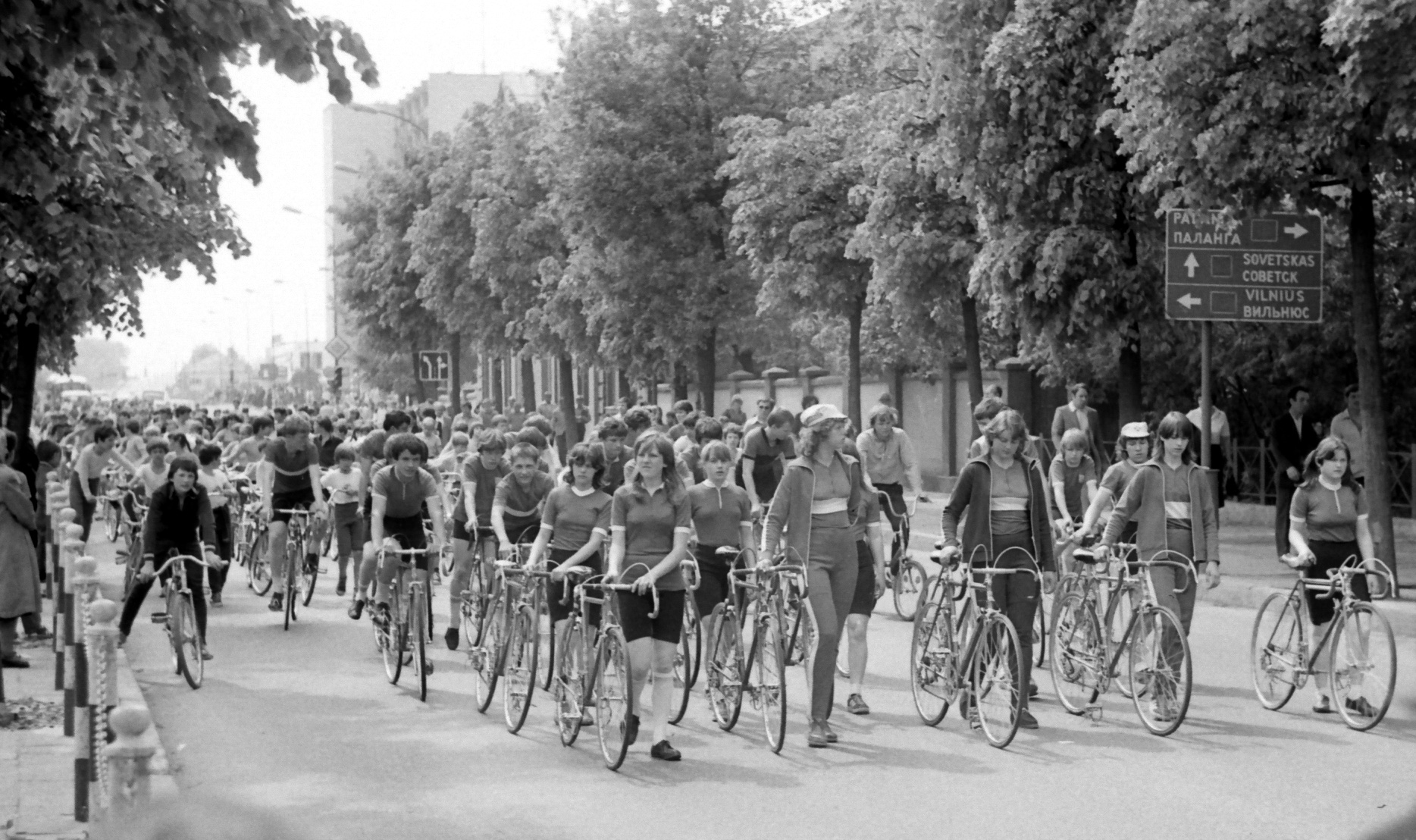 „Velocity Šiauliai - 1983“, Lithuania